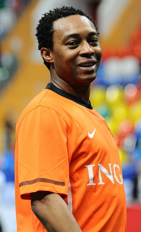 Regi Blinker at 2011 Legends Cup